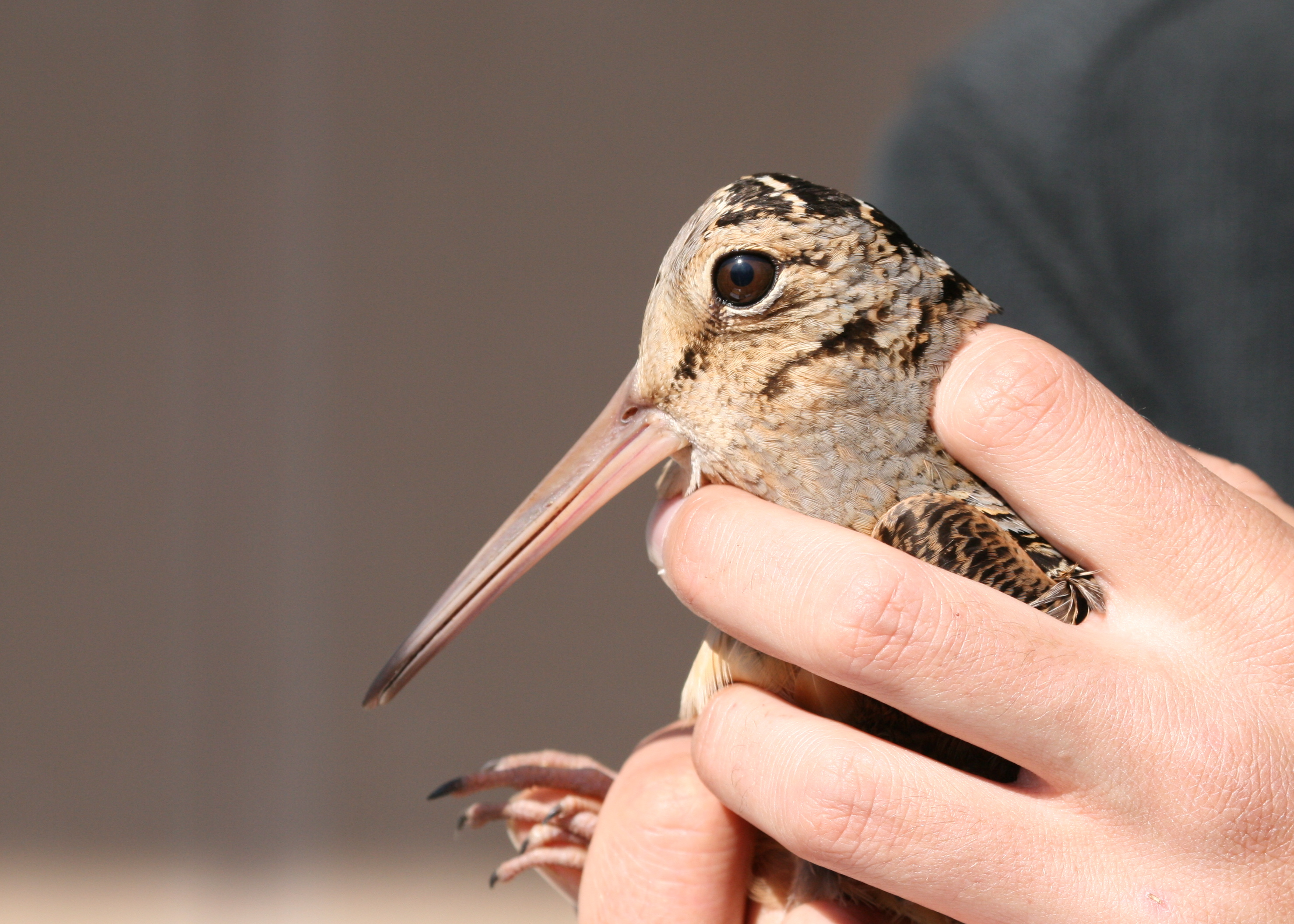 American Woodcock (Scolopax minor) face